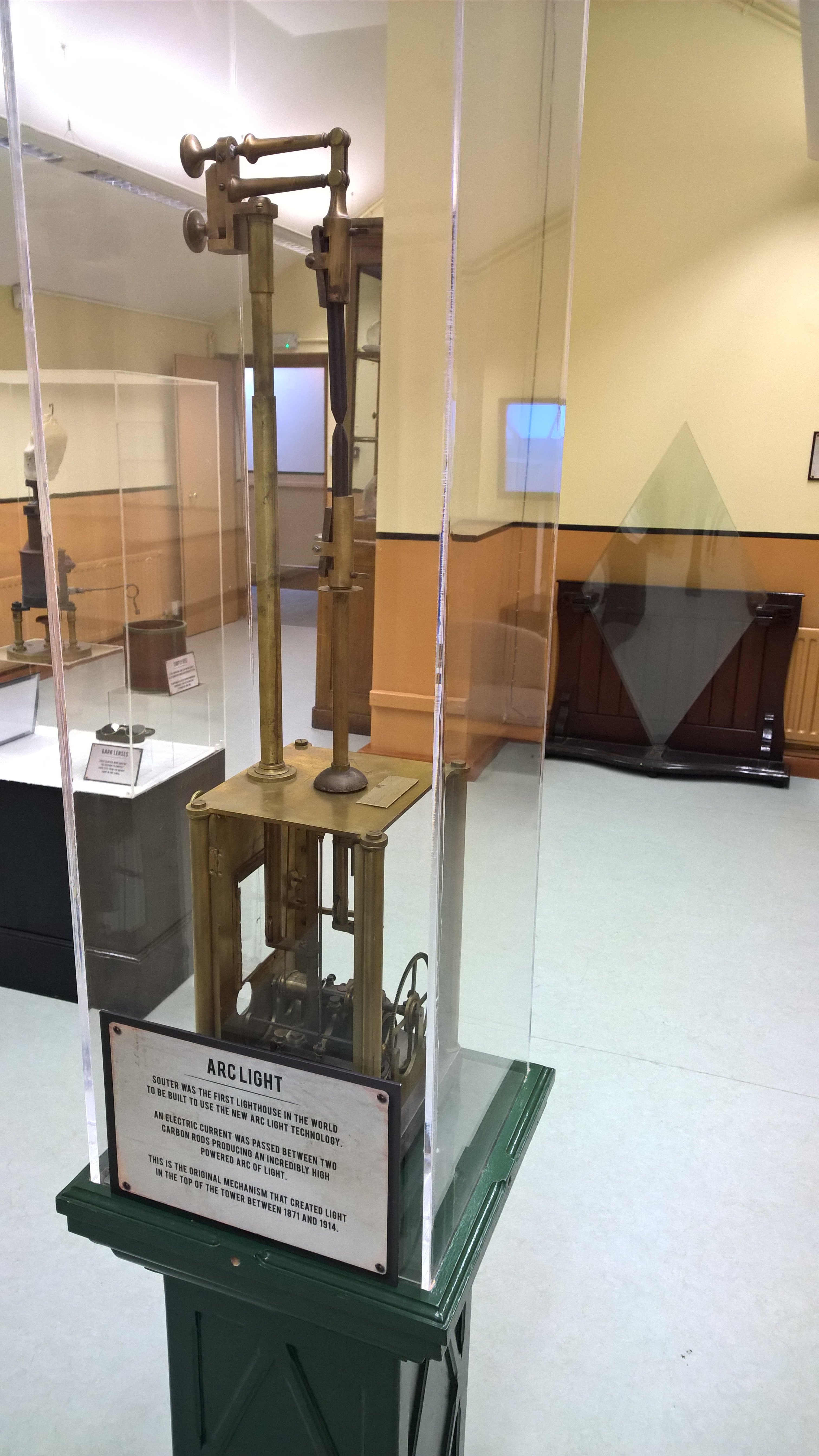 This arc-light mechanism was in use at Souter Lighthouse from 1871-1914 and is now on display in the museum there. Souter was the first lighthouse in the world to be built to use electric light.